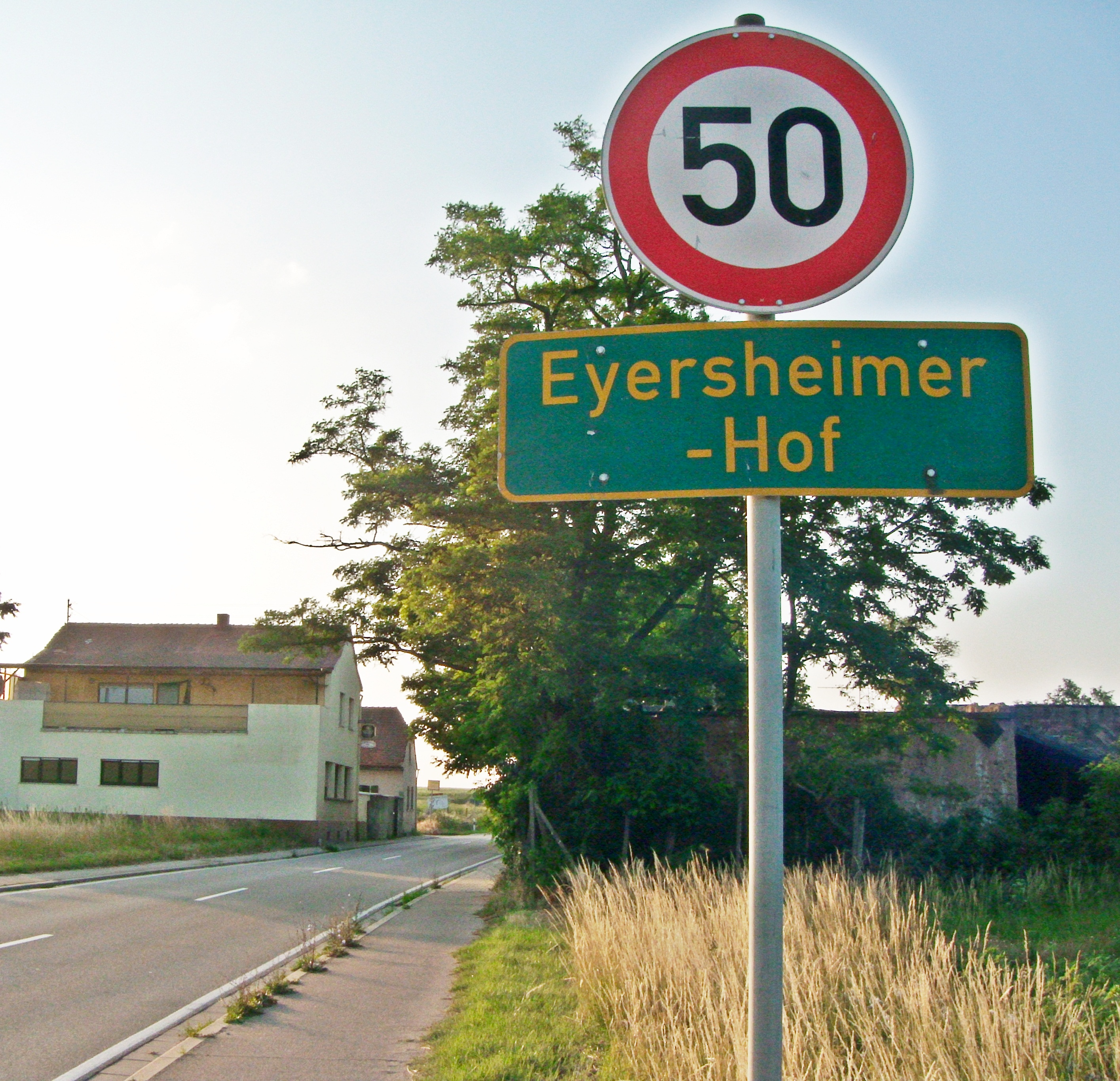 Eyersheimer Hof von Süden, mit Ortsschild